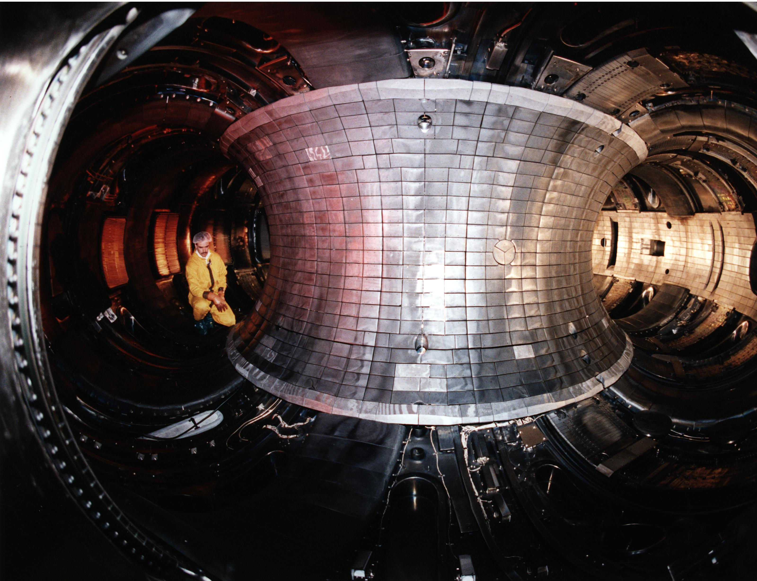 THE TOKAMAK FUSION TEST REACTOR (TFTR). TFTR WILL BE 1ST FUSION EXPERIMENT TO USE TRITIUM, RADIO- ACTIVE ISOTOPE OF HYDROGEN. TRITIUM WILL BE STORED IN SOLID FORM IN 3 THICK-WALLED STEEL CYLINDERS WITHIN TRITIUM STORAGE DELIVERY GLOVEBOX. WHEN NEEDED FOR MACHINE PULSE, TRITIUM GAS WILL BE GENERATED BY ELECTRICALLY HEATING SOLID TO A TEMPERATURE 300-400 DEGREES CENTIGRADE. VACUUM SYSTEM & TRITIUM SYSTEM WILL FUNCTION TOGETHER TO INJECT TRITIUM IN- TO TORUS TO CONDUCT EXPERIMENT& REMOVE WHEN EXPERIMENT OVER For more information or additional images, please contact 202-586-5251.